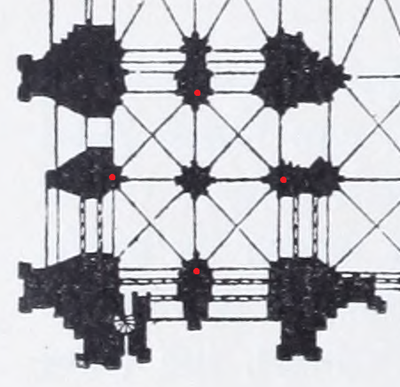 Cologne Cathedral, south tower, floor plan with crane position marked in red